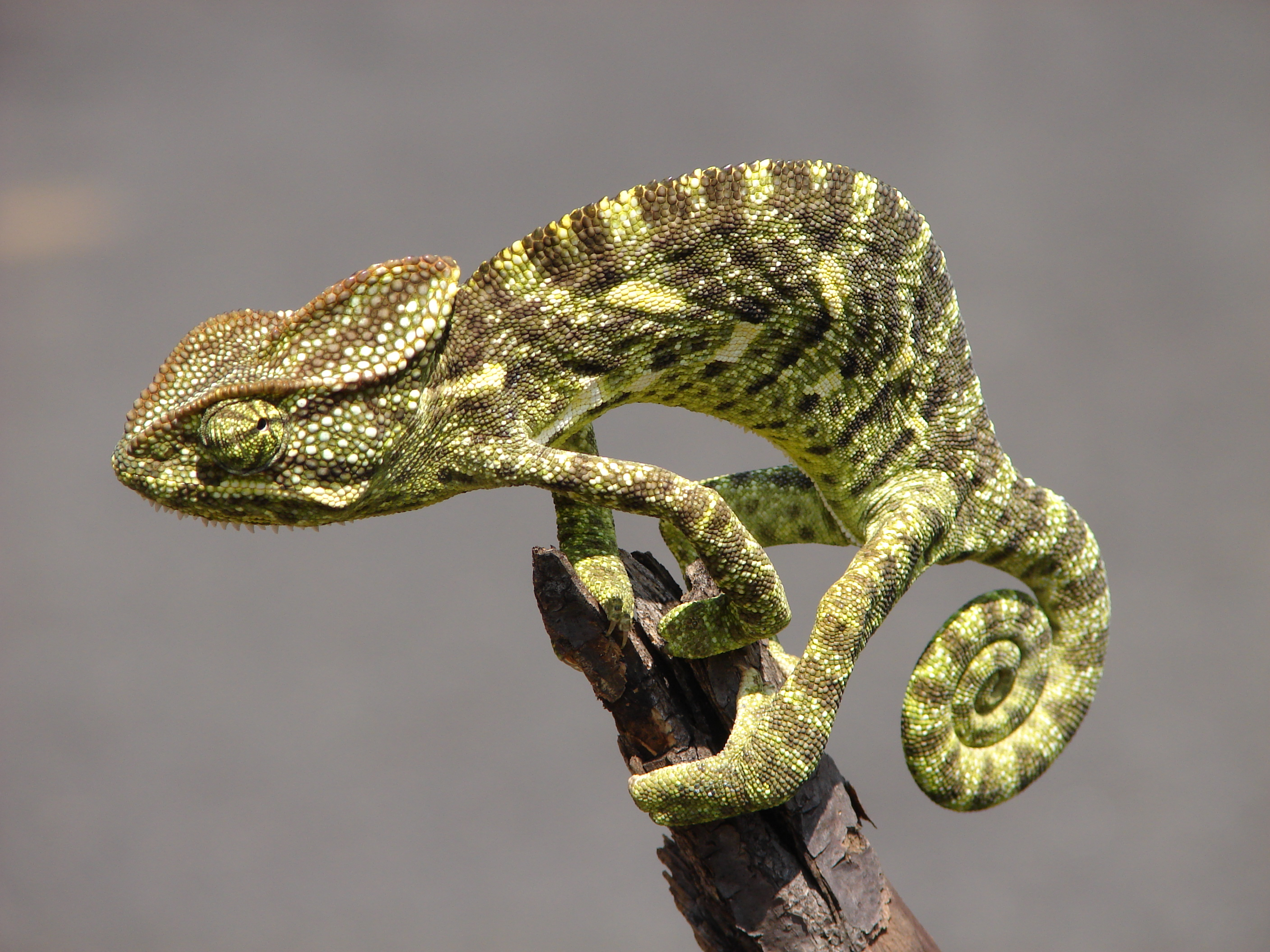 Chameleon Chamaeleo zeylanicus Close-up